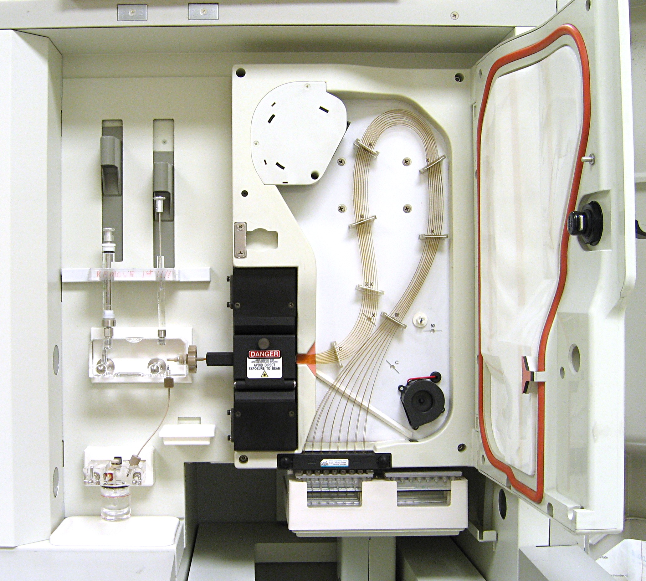 An ABI 3100 16-capillary DNA sequencer, showing the capillary array and blocks and syringes.